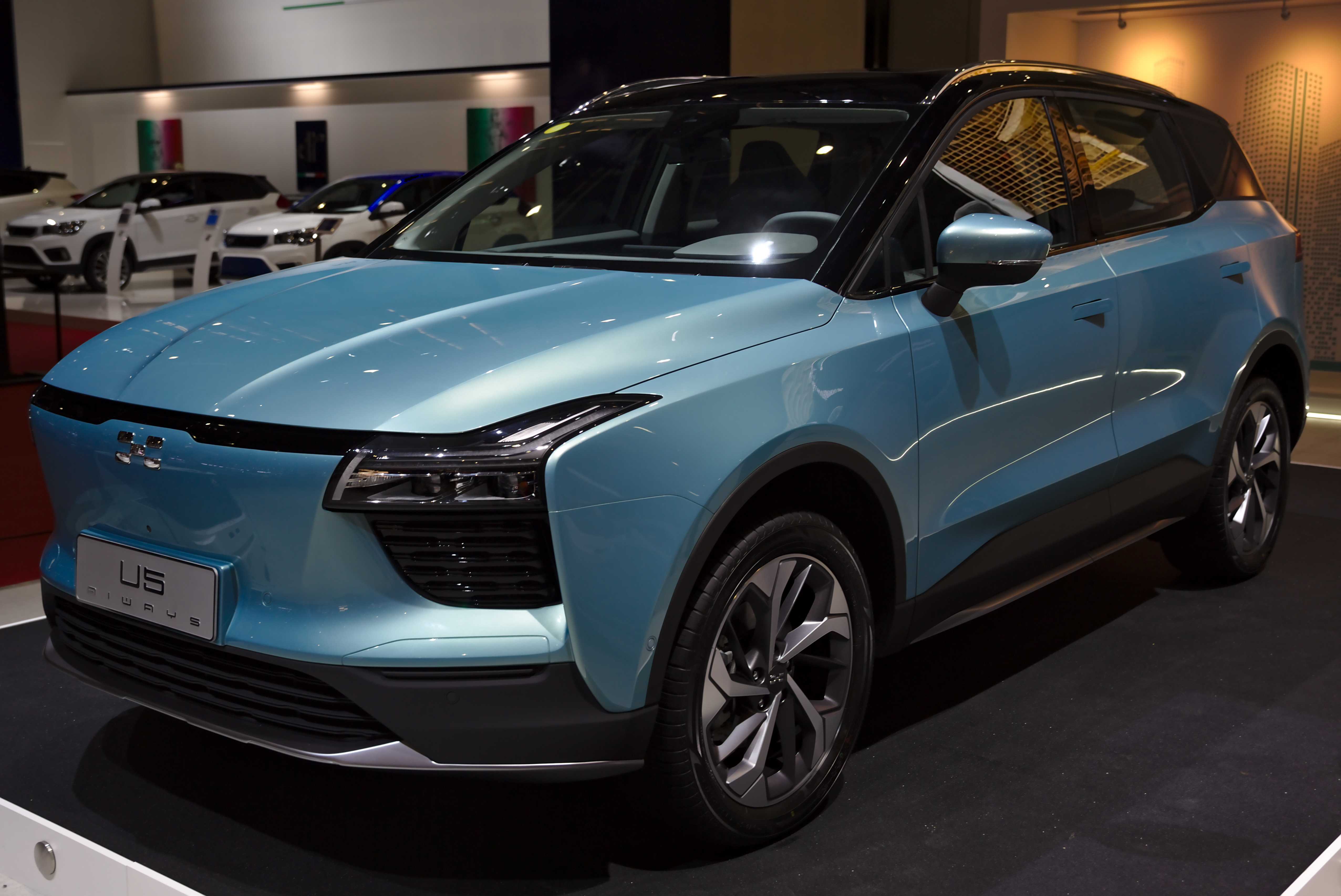 Aiways U5 at Geneva Motor Show 2019